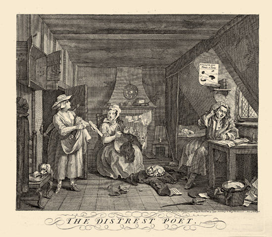 Description: The Distrest Poet by William Hogarth